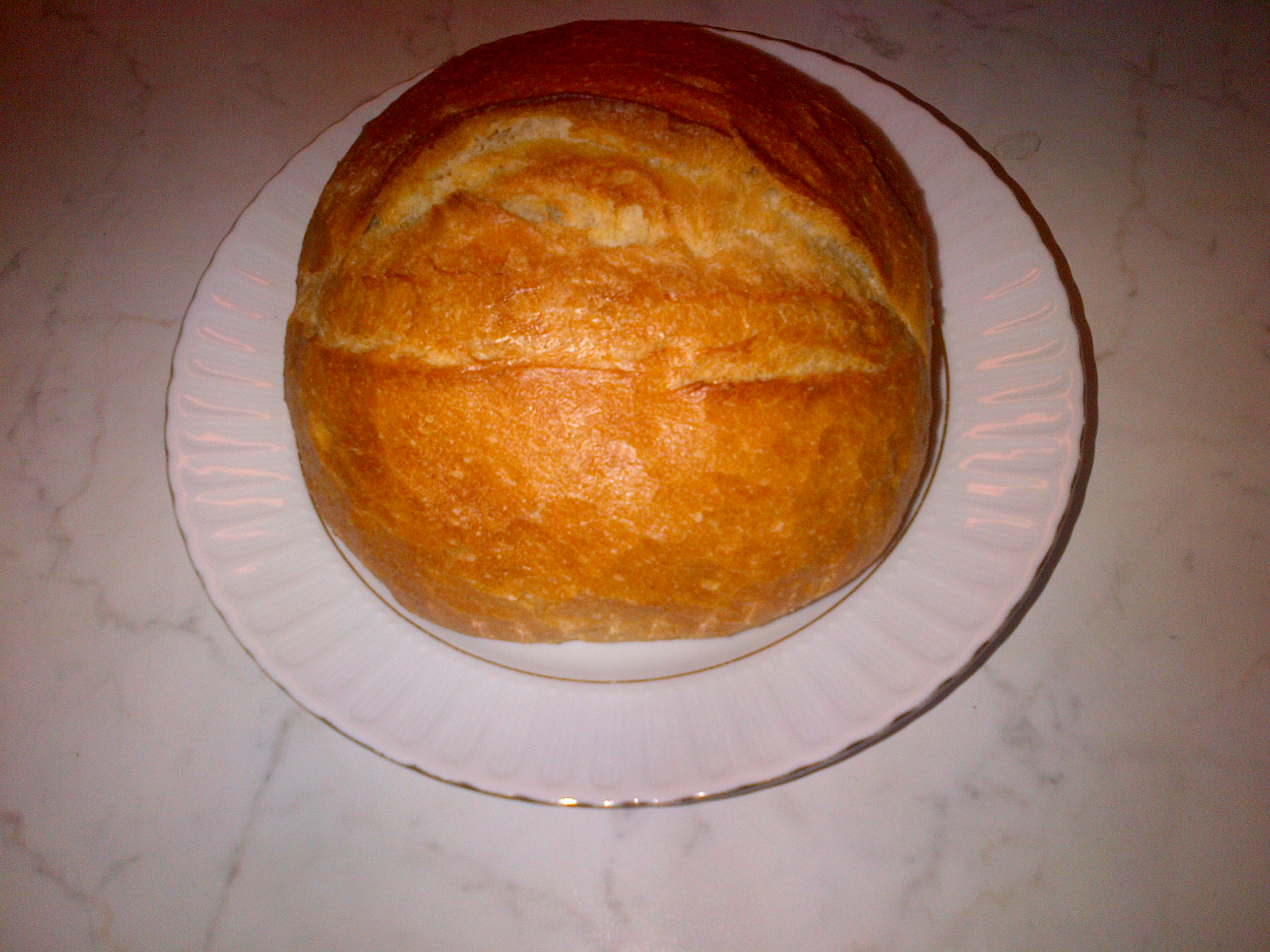 Somun is a typical bread loaf from Turkey.